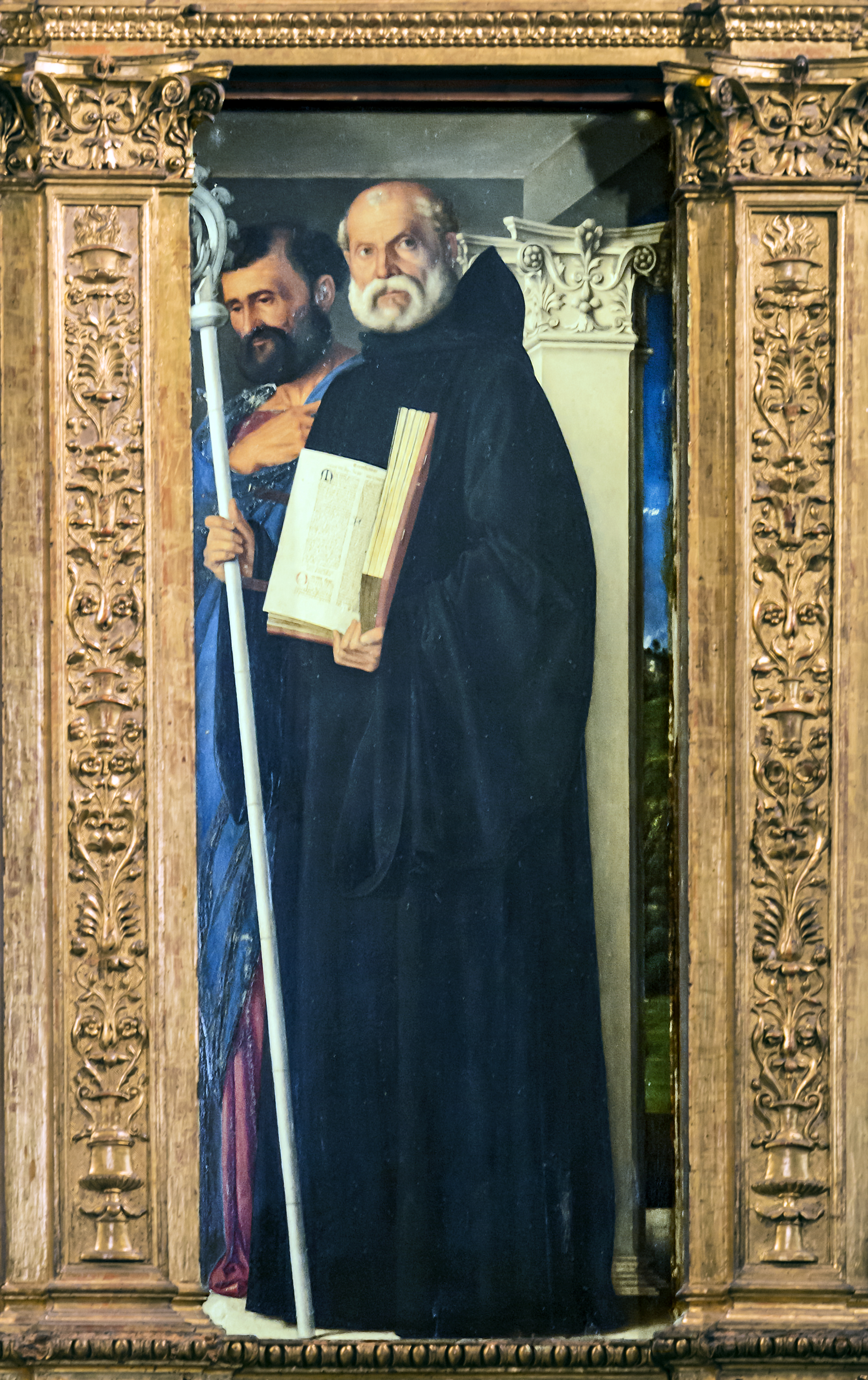 Santa Maria Gloriosa dei Frari, Sacristy - Triptych Madonna and Child. Benedict of Nursia and Saint Mark the Evangelist by Giovanni Bellini. Oil on panel 1488. Size: 2.75x2.50cm